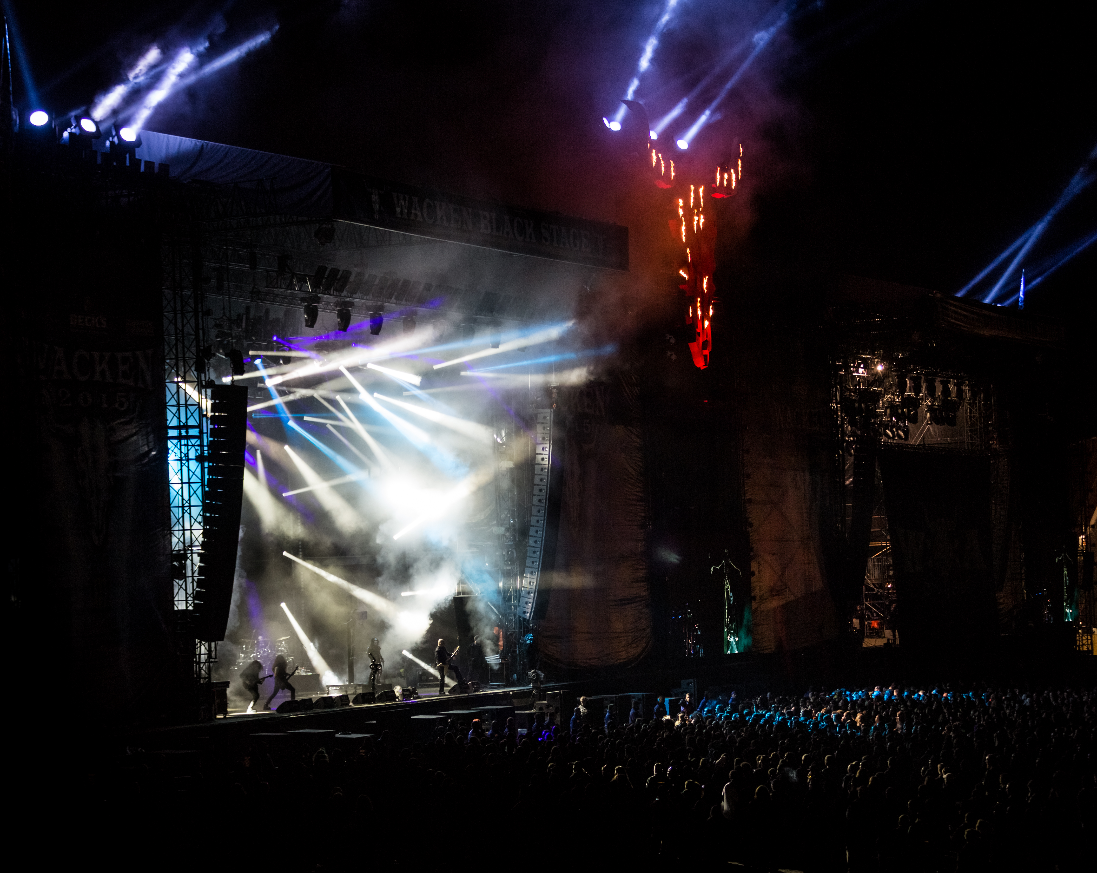 Cradle of Filth - Wacken Open Air 2015